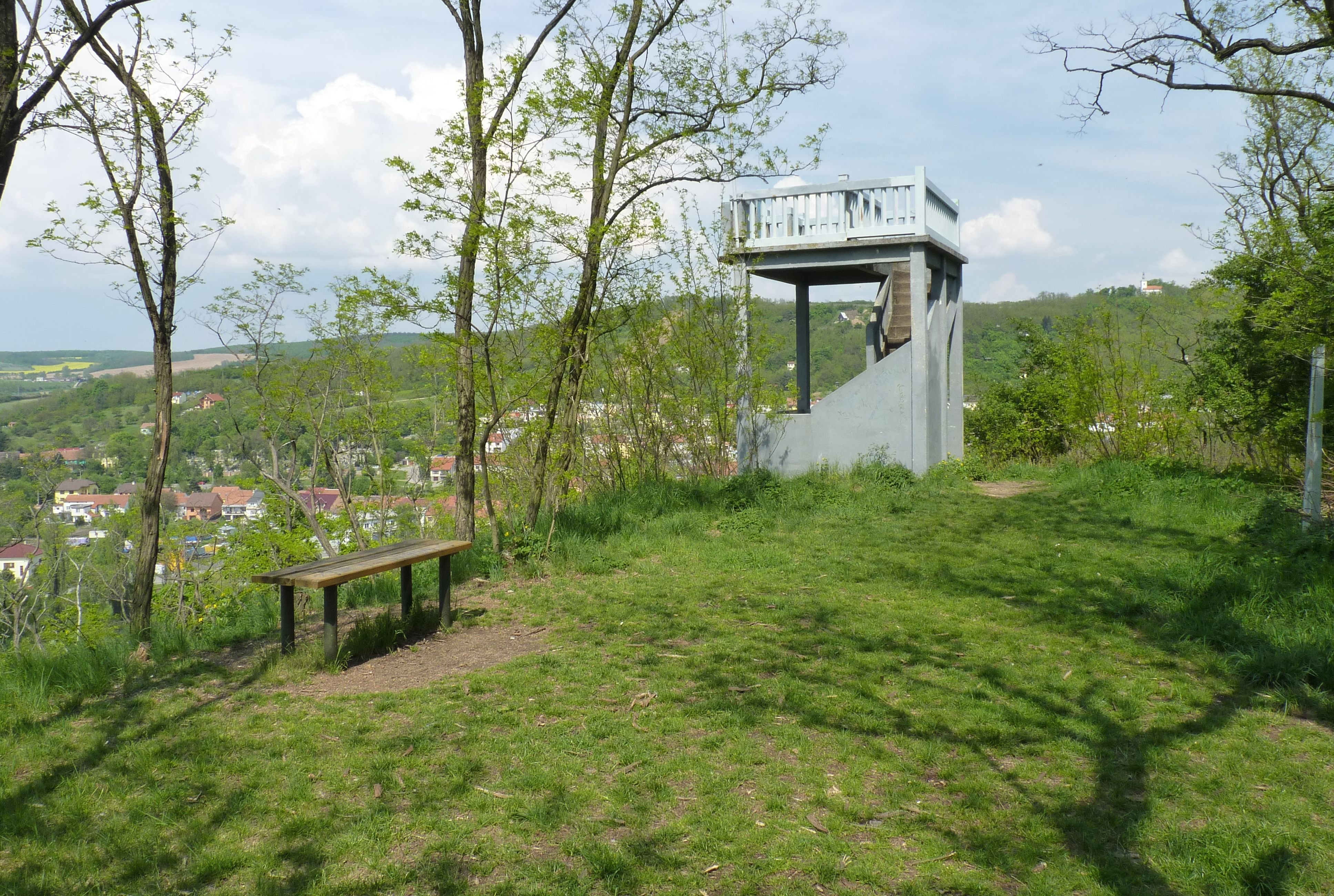 Alfons Mucha observation tower near Ivančice, Brno-Country District, South Moravian Region, Czech Republic